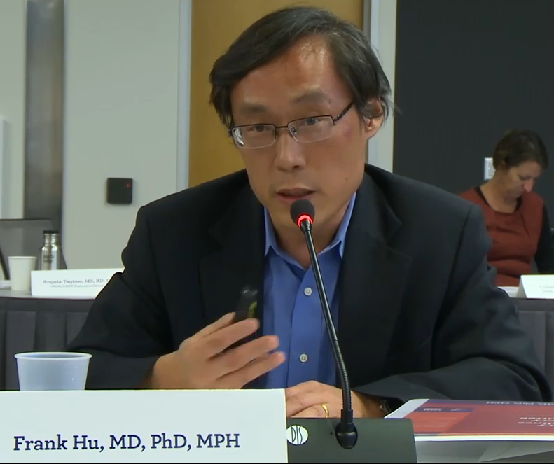 Frank Hu presenting to the US Dietary Guidelines Advisory Committee about saturated fat and cardiovascular disease